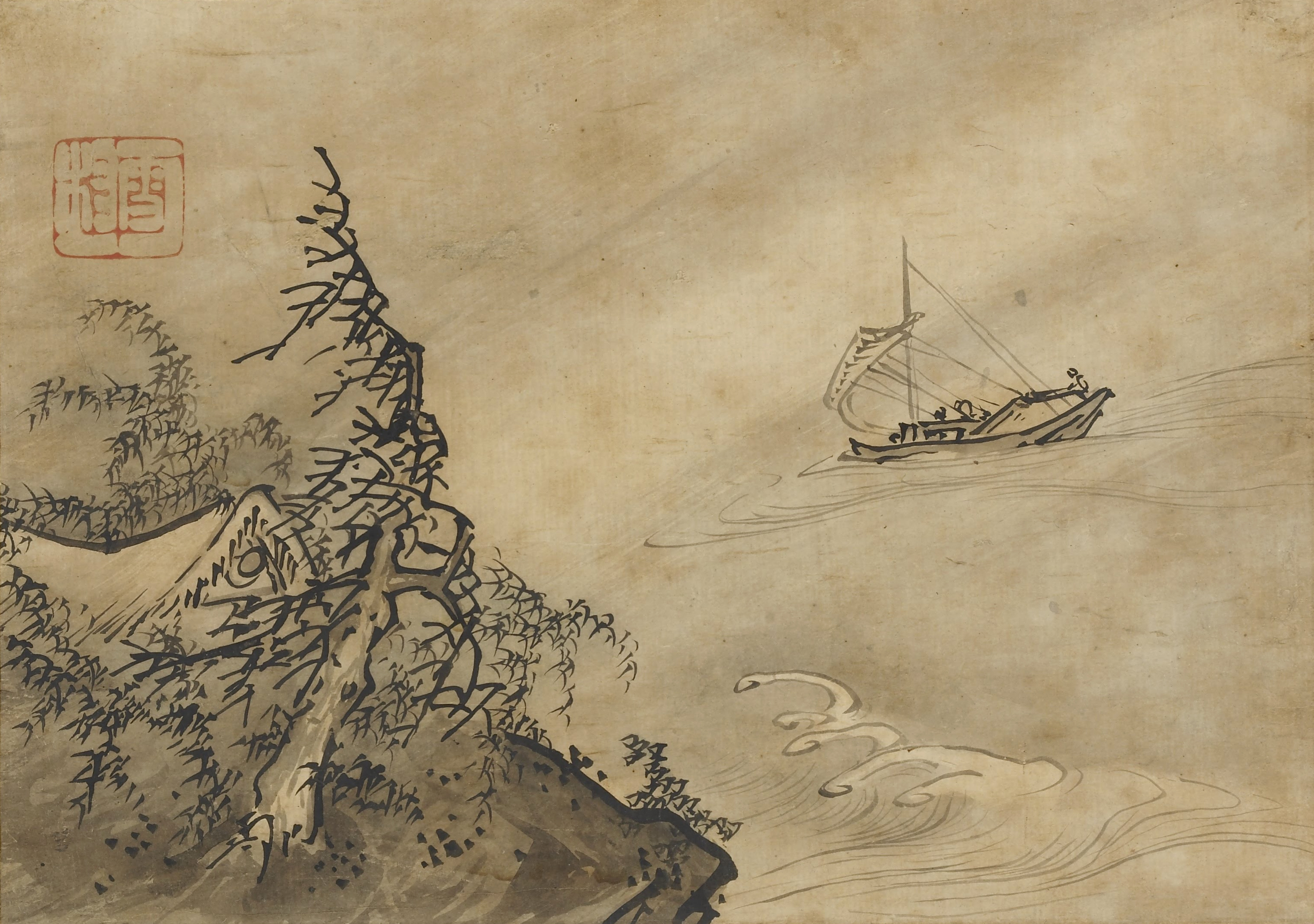 Tempest, by Sesson Shukei, Nomura Art Museum, Kyoto, Kyoto, Japan